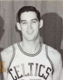 The 1959-60 Boston Celtics team that won its 3rd NBA title.